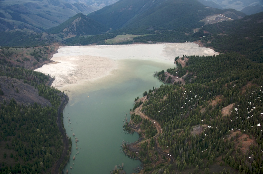 The Bruno Creek Tailings Impoundent tailings pool